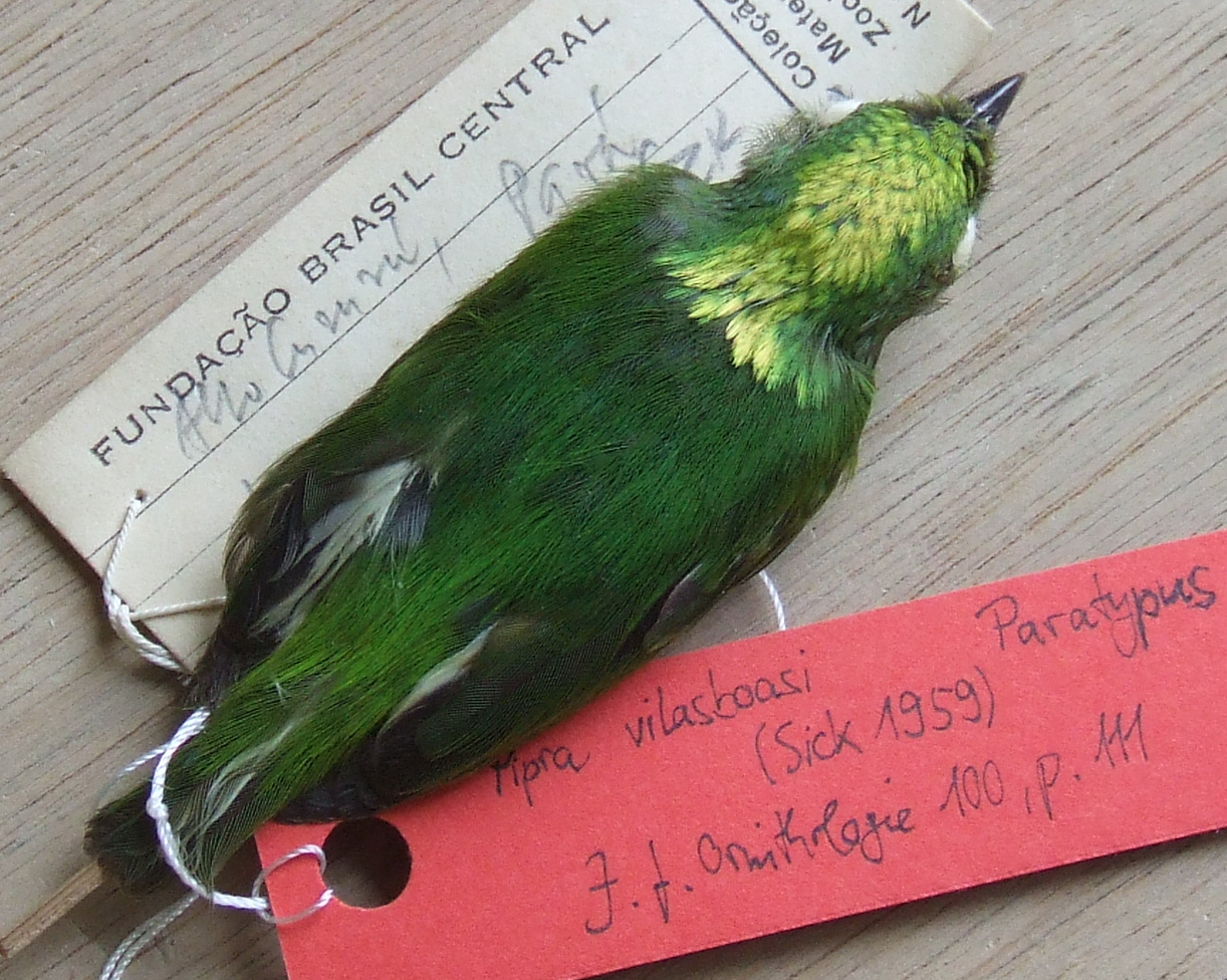 Paratype male of Lepidothrix vilasboasi, Museum für Naturkunde Berlin specimen 59.27.